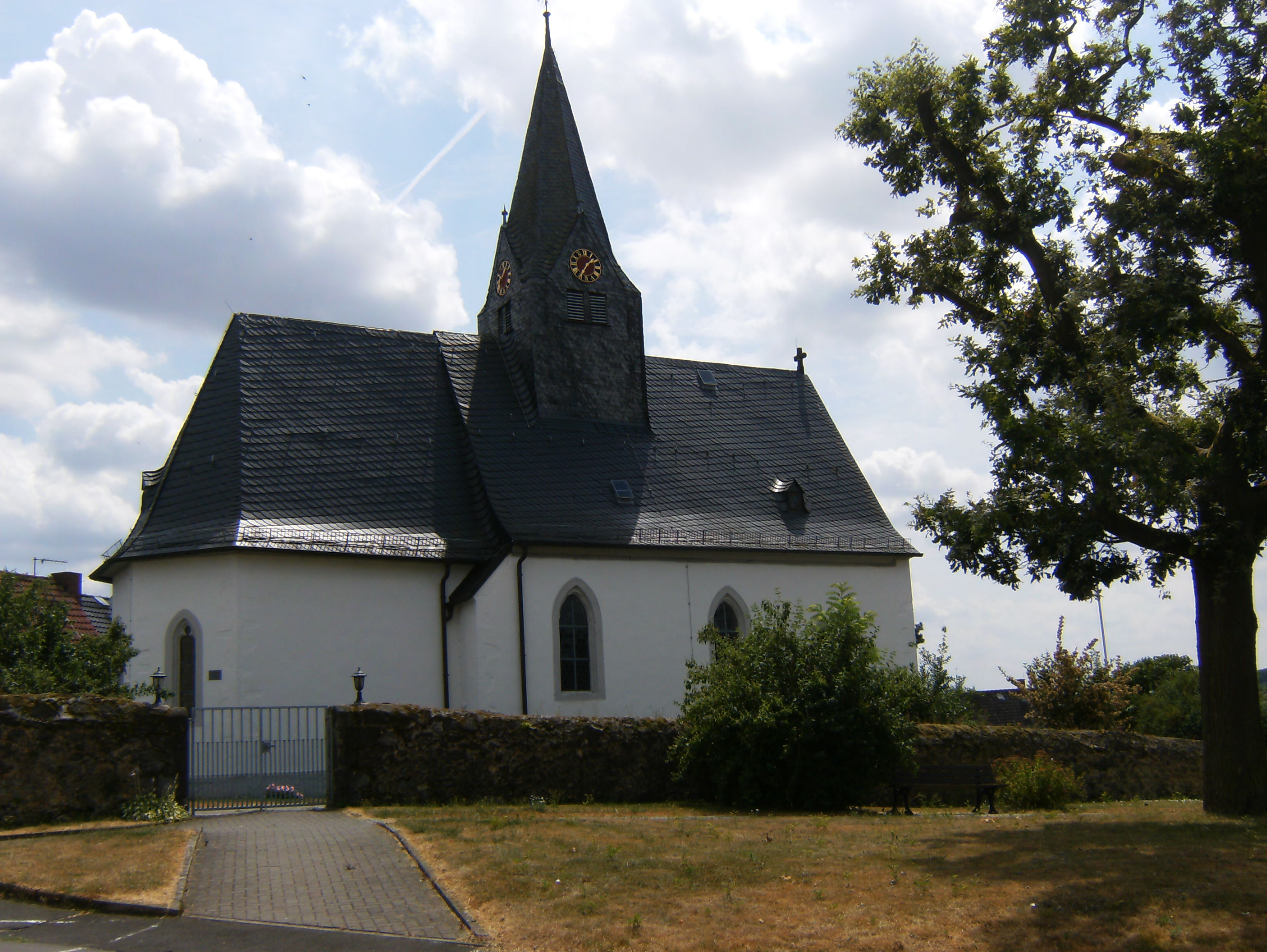 Lich-Ober-Bessingen (Hesse), church.